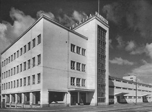 Hankkija office and warehouse in Vyborg. Architect Erkki Huttunen 1932.